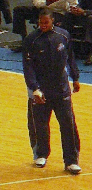 Robert Whaley warms up before a game in December 2005.